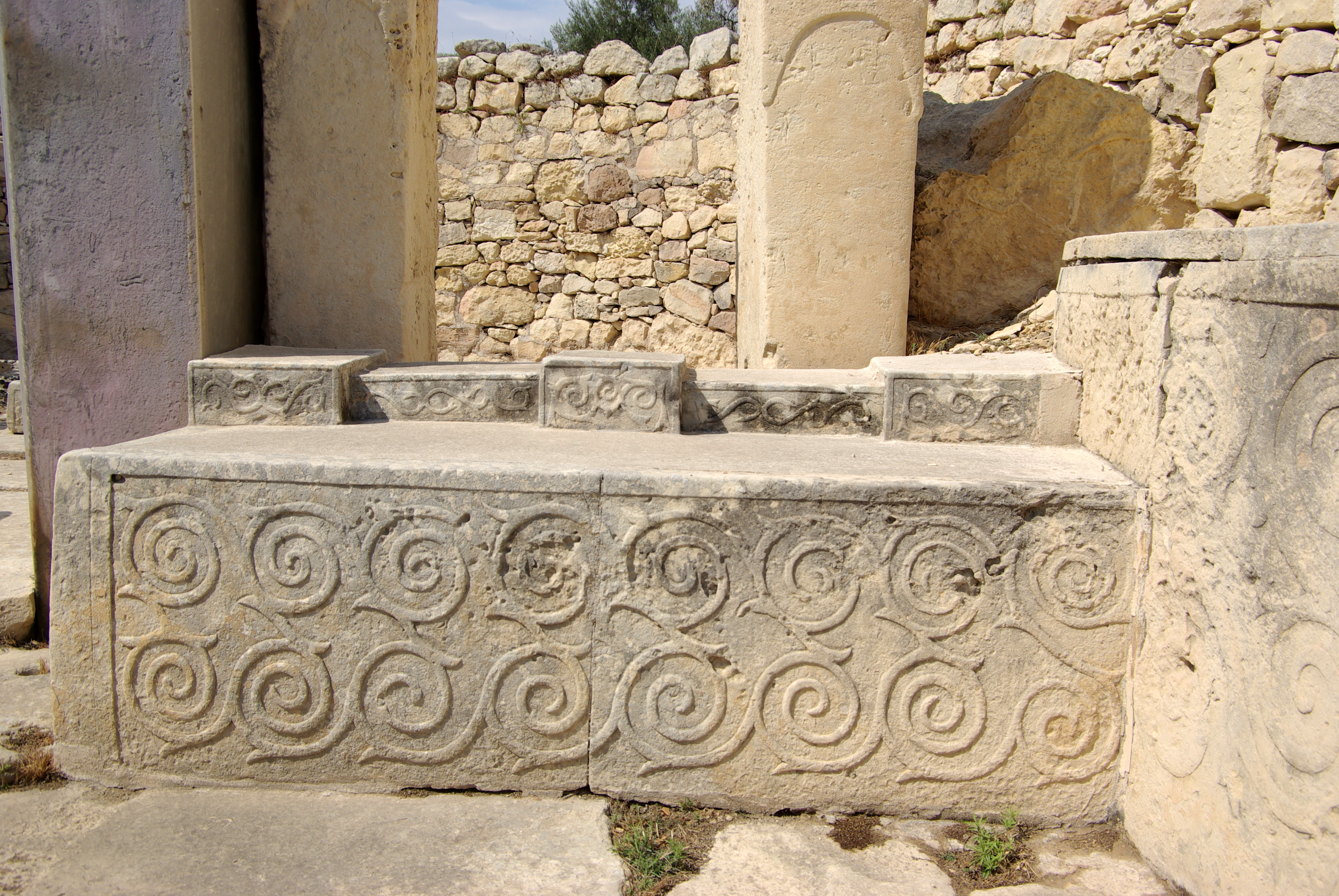 Malta, Tarxien Tempels, stone with spiral design